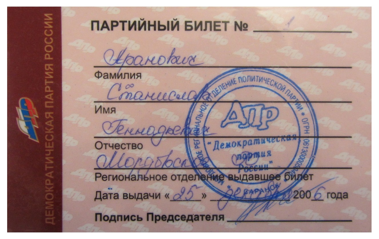 The membership card of the "Democratic party of Russia (DPR), from 2006 to 2008 year.